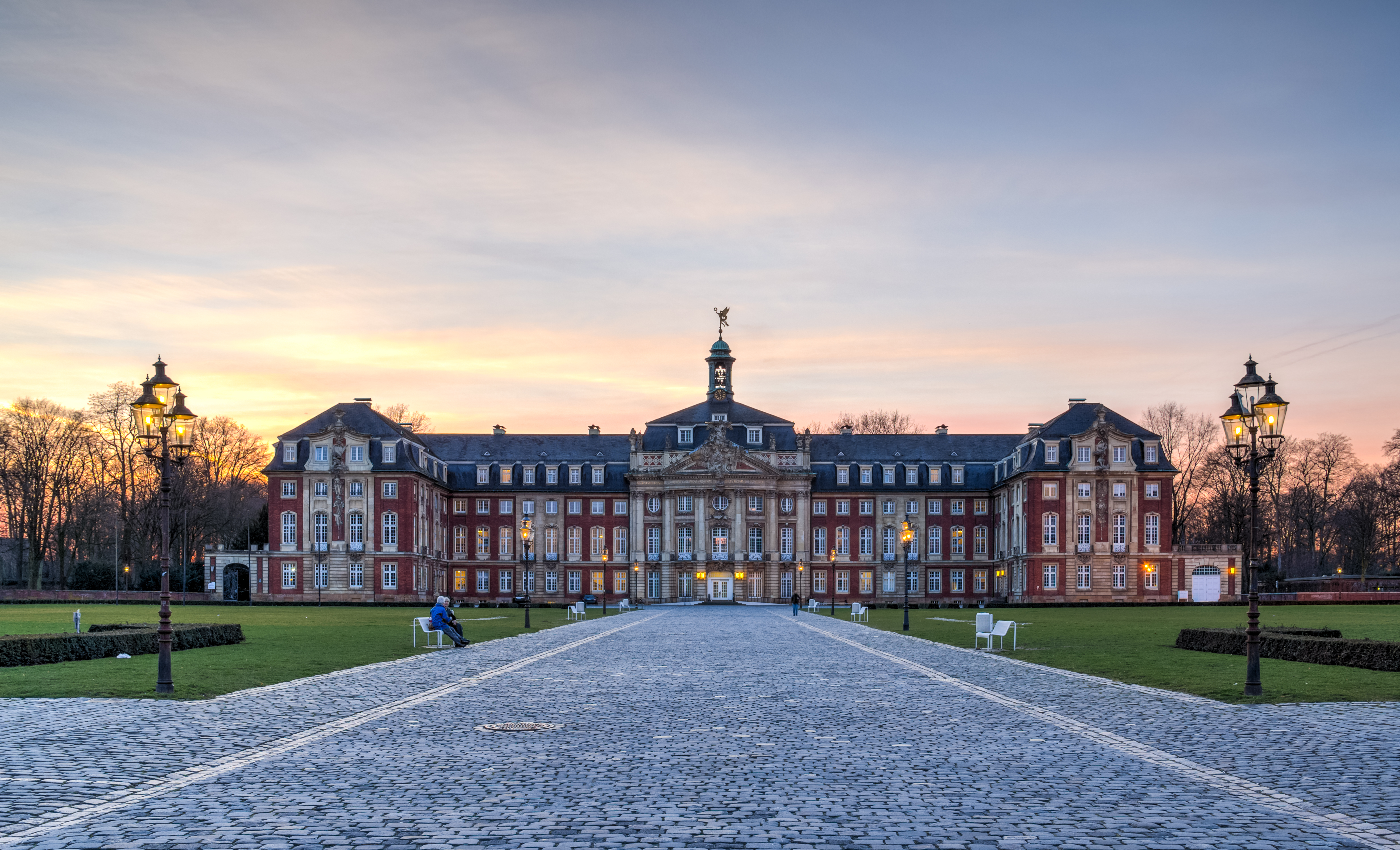 Prince Bishop's Castle Münster, Münster, North Rhine-Westphalia, Germany This image shows a heritage building in Germany, located in the North Rhine-Westphalian city Münster.